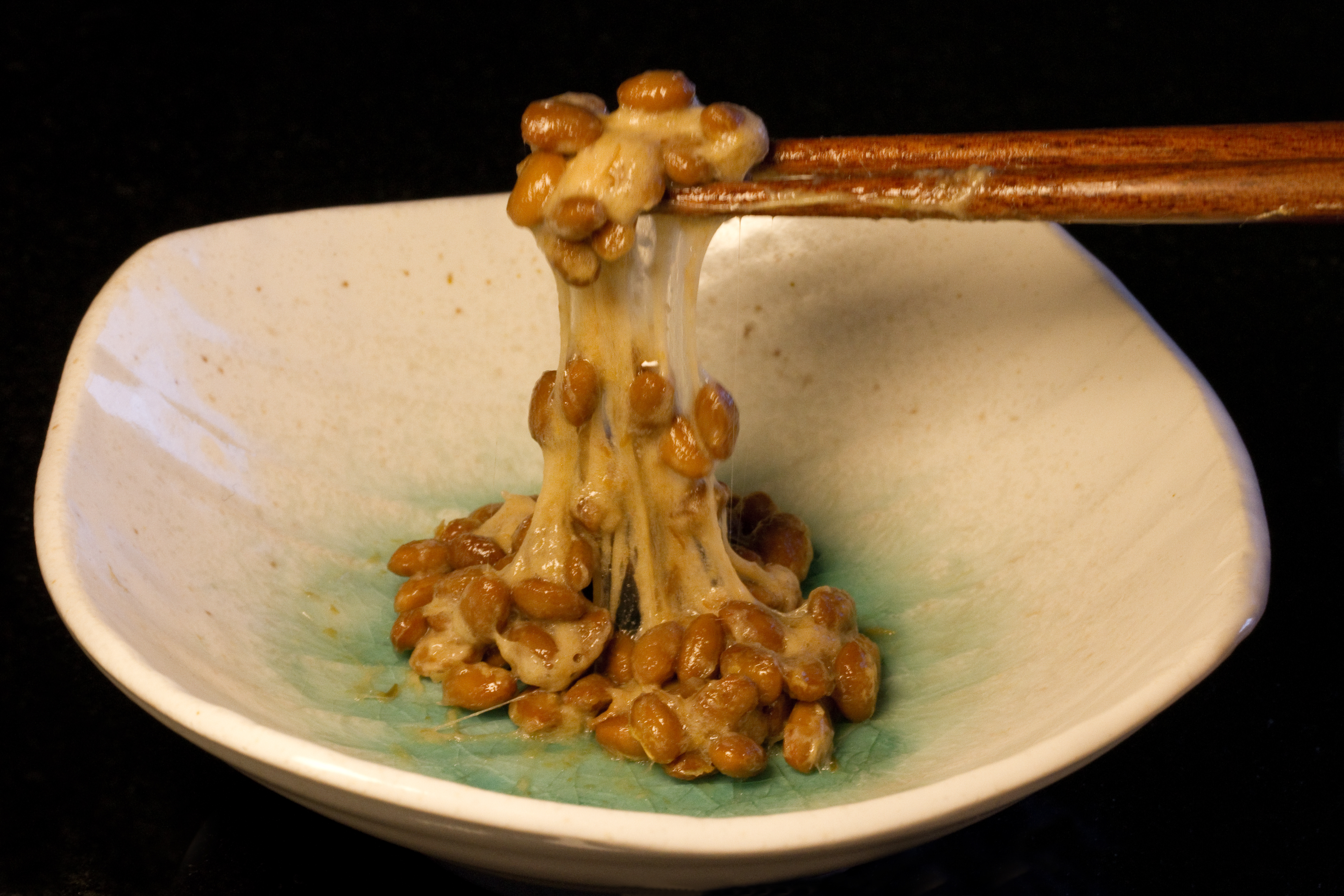 Natto mixed by Kinchan1